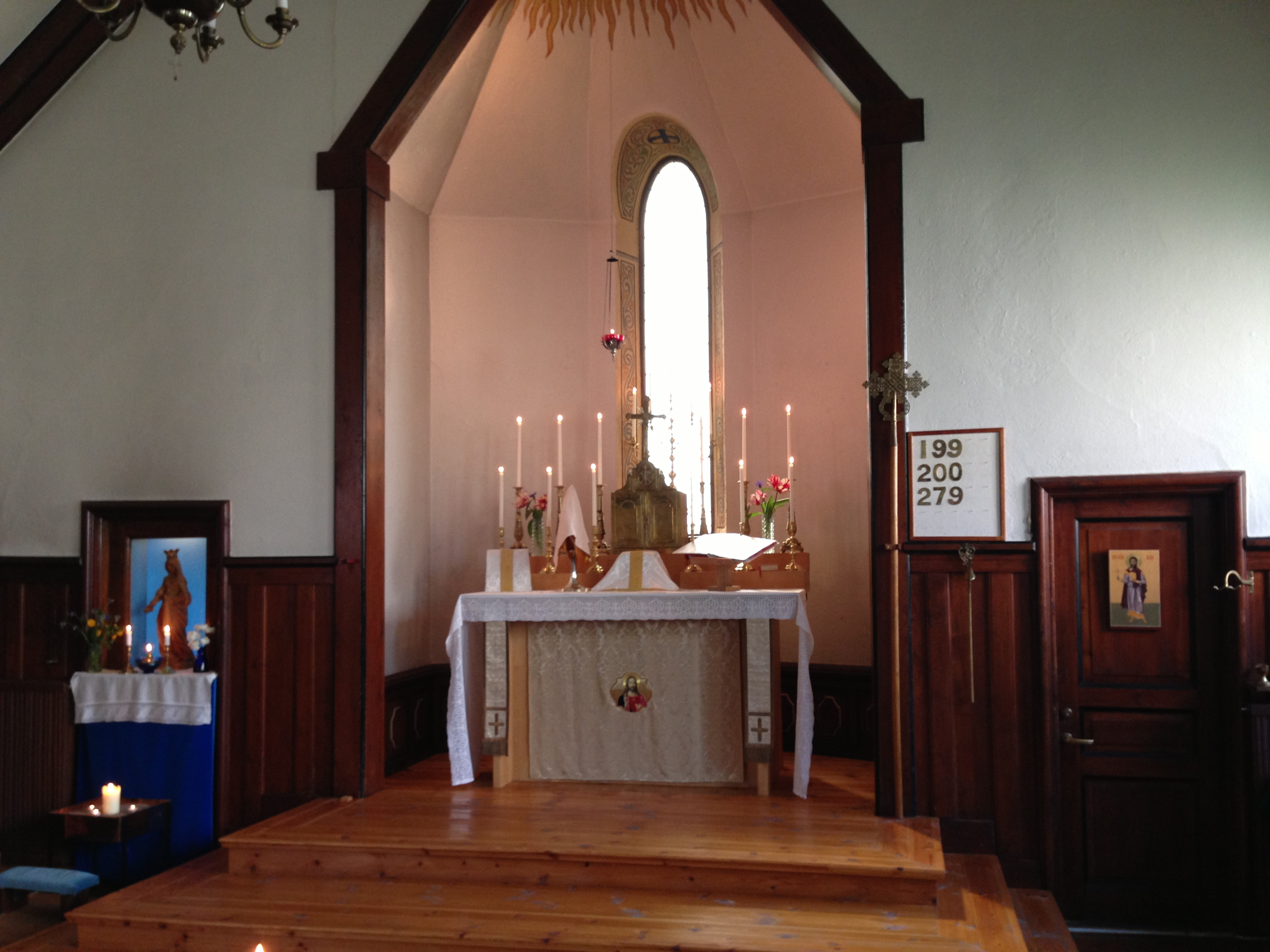 Interior view of St Michael and all angels Liberal Catholic Church in Stockholm